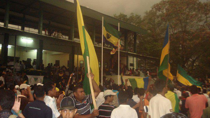 St Annes Collge supporters at Welagedara Ground